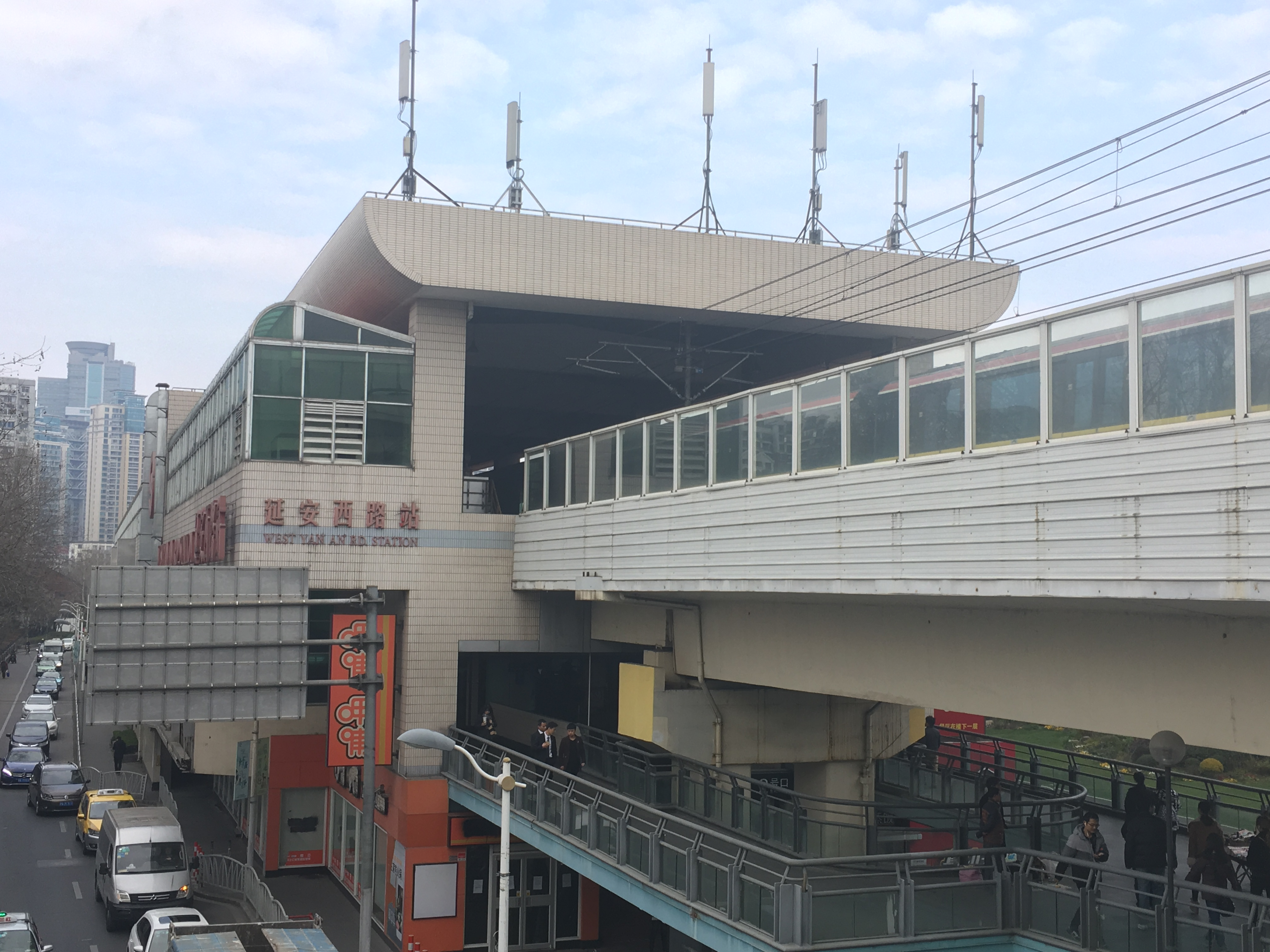 West Yan'an Road Station on Shanghai Metro Line 3&4.